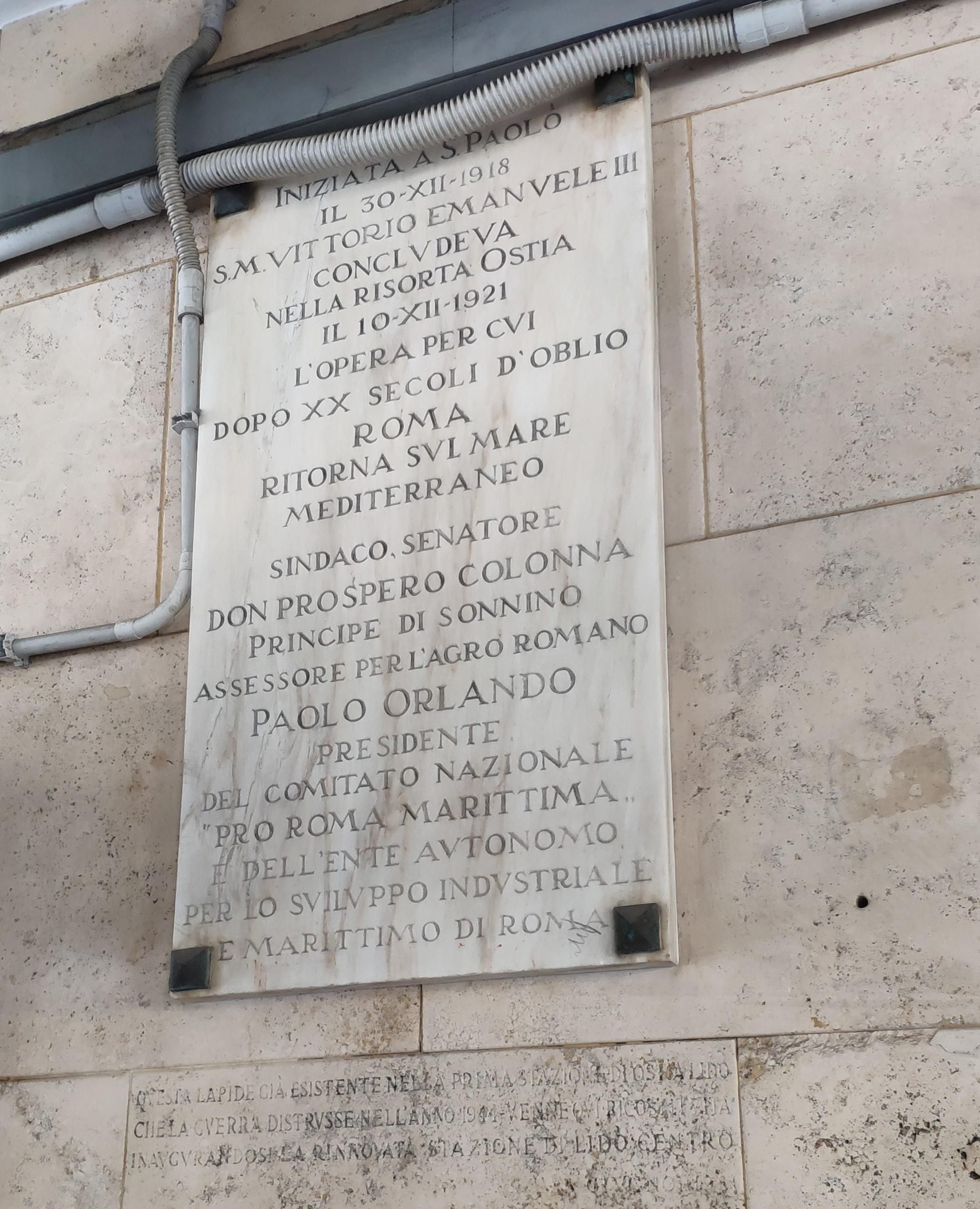 A headstone in Lido di Ostia Centro railway station